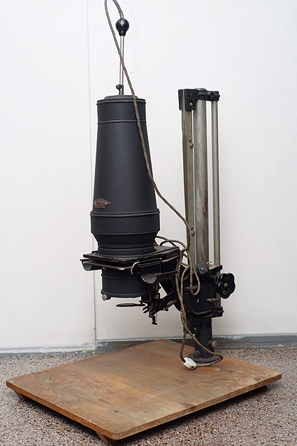 The Multifoc IIA is an enlarger of former German optics manufacturer Filmosto, Dresden.